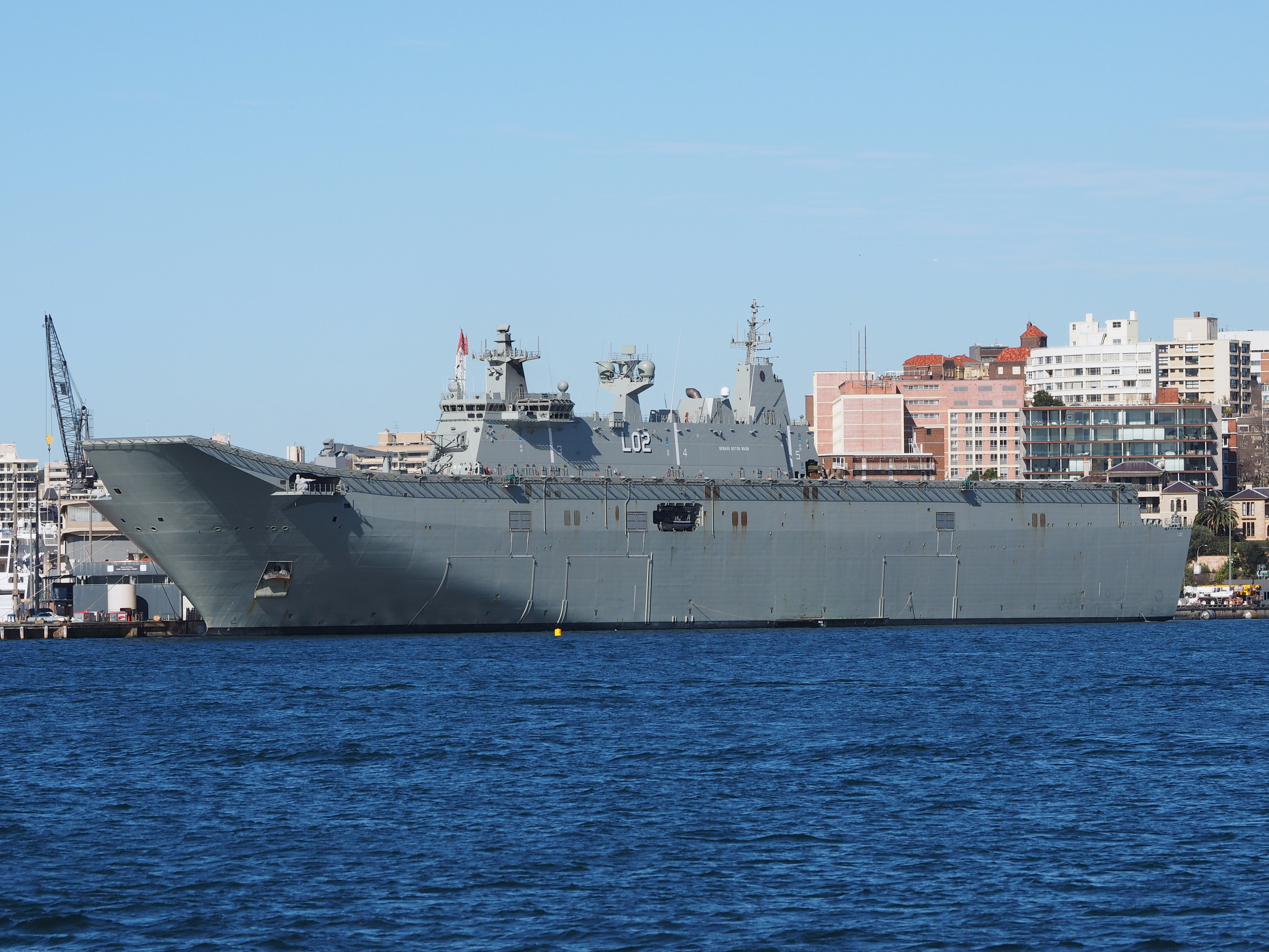 HMAS Canberra alongside at Fleet Base East in June 2015